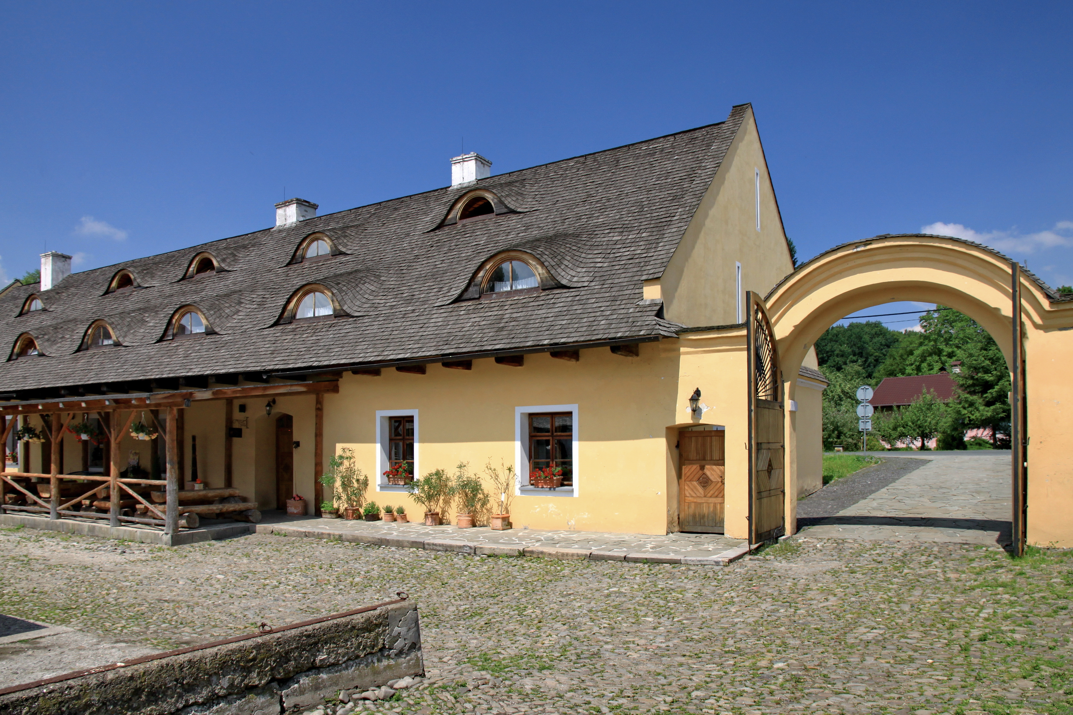 Manor house, Olšiny 59/17, Staré Město, Karviná. Moravian-Silesian Region, Czech Republic.